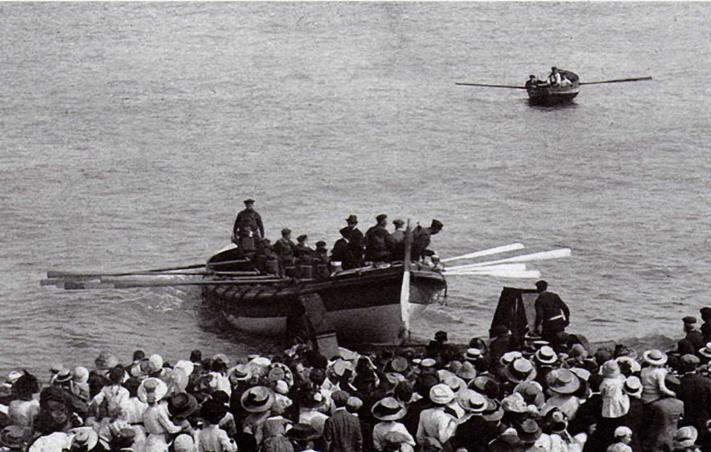 Very Old Post card image of the Cromer Lifeboat Louisa Heartwell